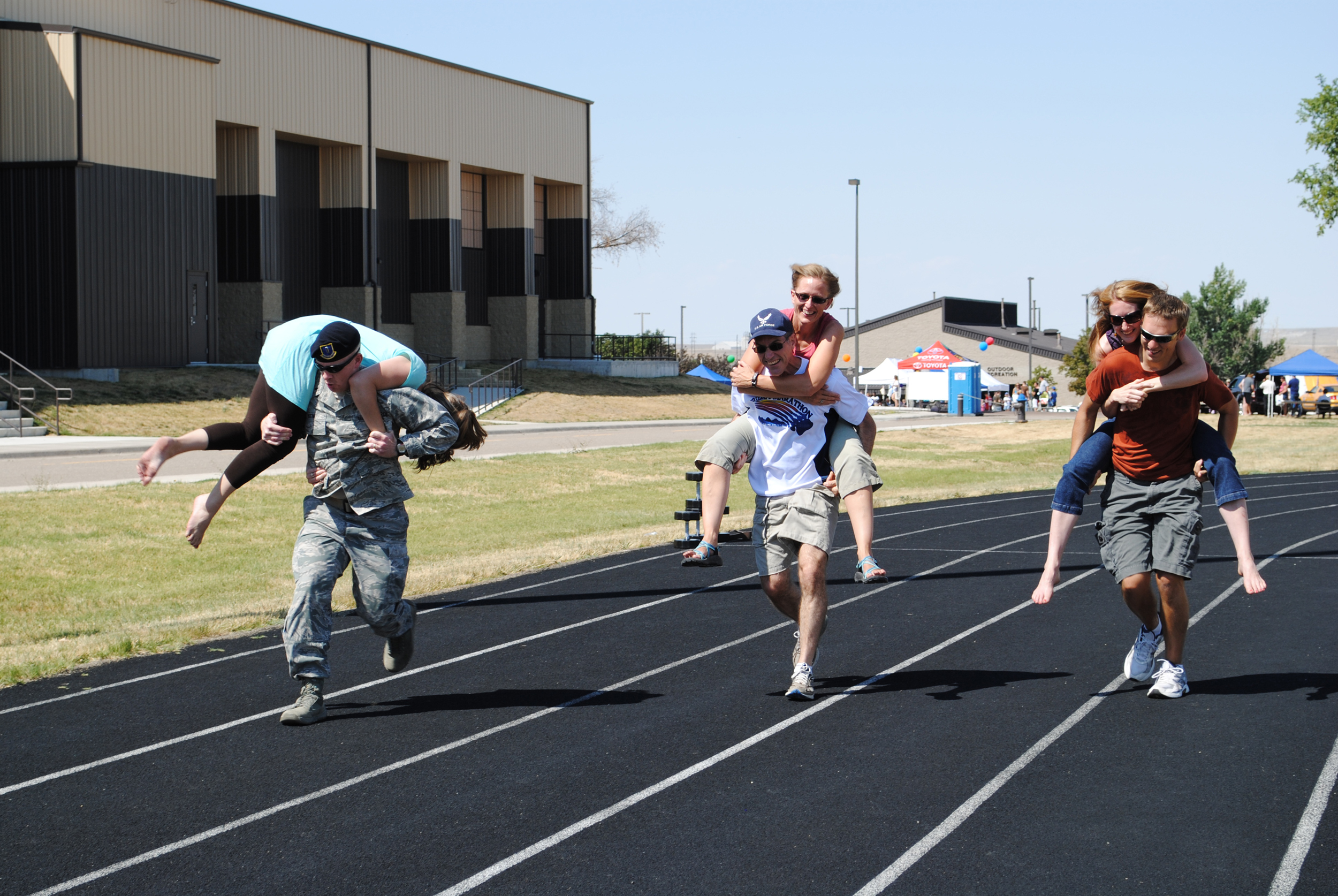 Three teams participate in the wife/girlfriend carry/ From left are 1st Lt. Jeffrey Beene, 341st MIssile Security Forces Squadron CCE and his wife, Erin; Chief Master Sgt. Duane Buchie, 341st Medical Group superintendent, and his wife, Lynn; and Daniel Christian and his wife, Brittany, Buchie's family members.